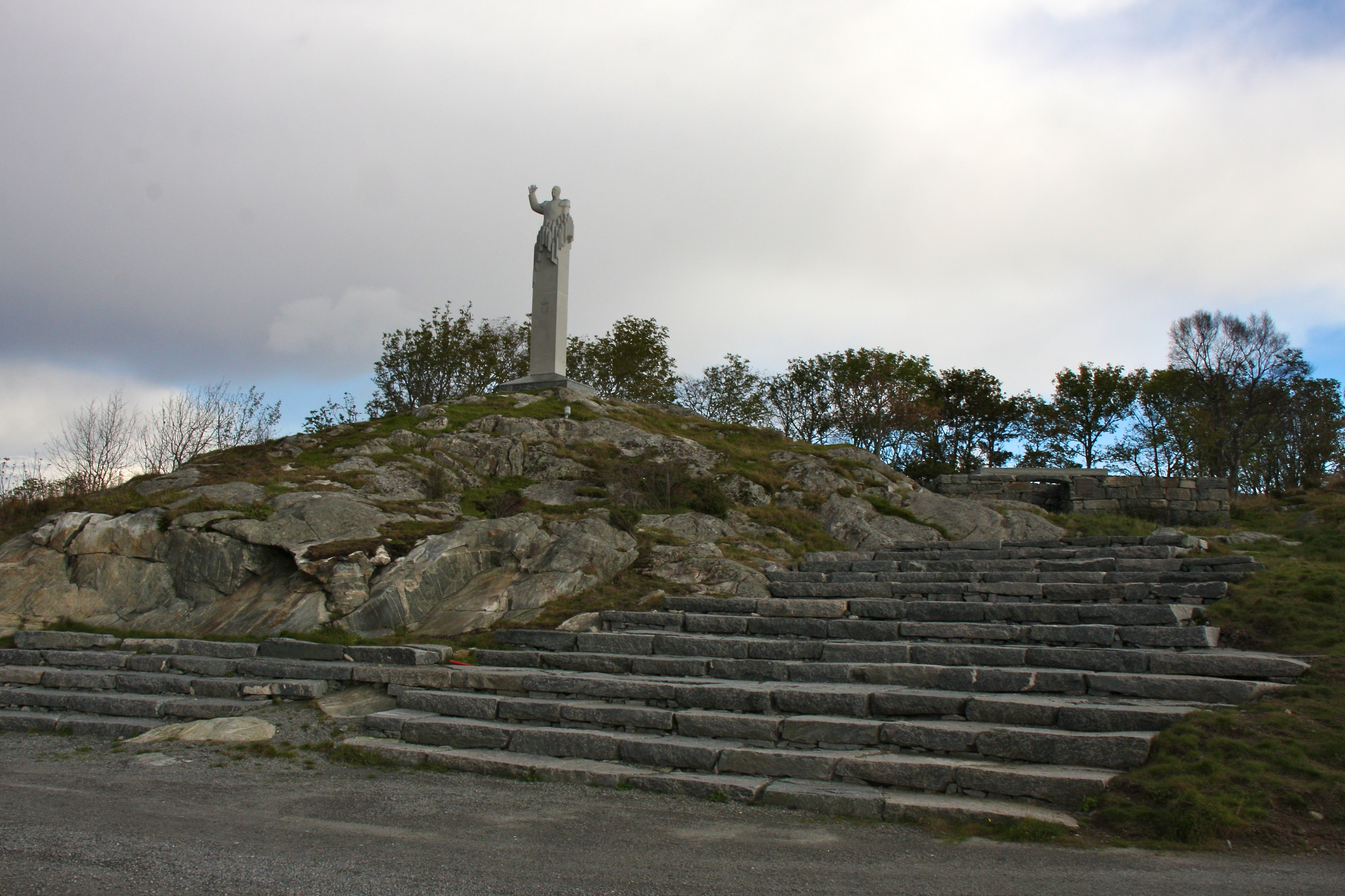 Gulen municipality, Norway.